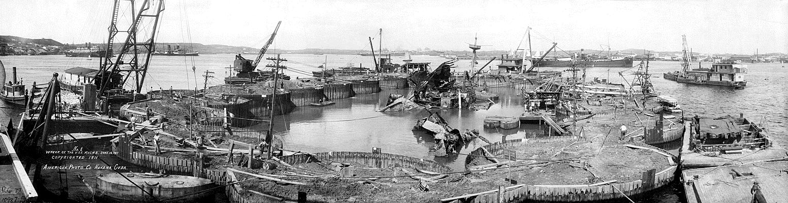 Wreck of the U.S.S. Maine, June 16, 1911 The photograph shows the raising and salvage operation of the ship, 13 years after it sank. After the salvage operation was completed, the ship was resunk offshore. The image was taken by the American Photograph Company of Havana, Cuba. source